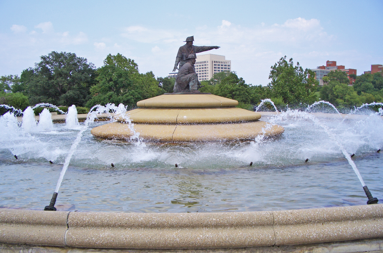 Firefighters' Fountain, Kansas City, Missouri